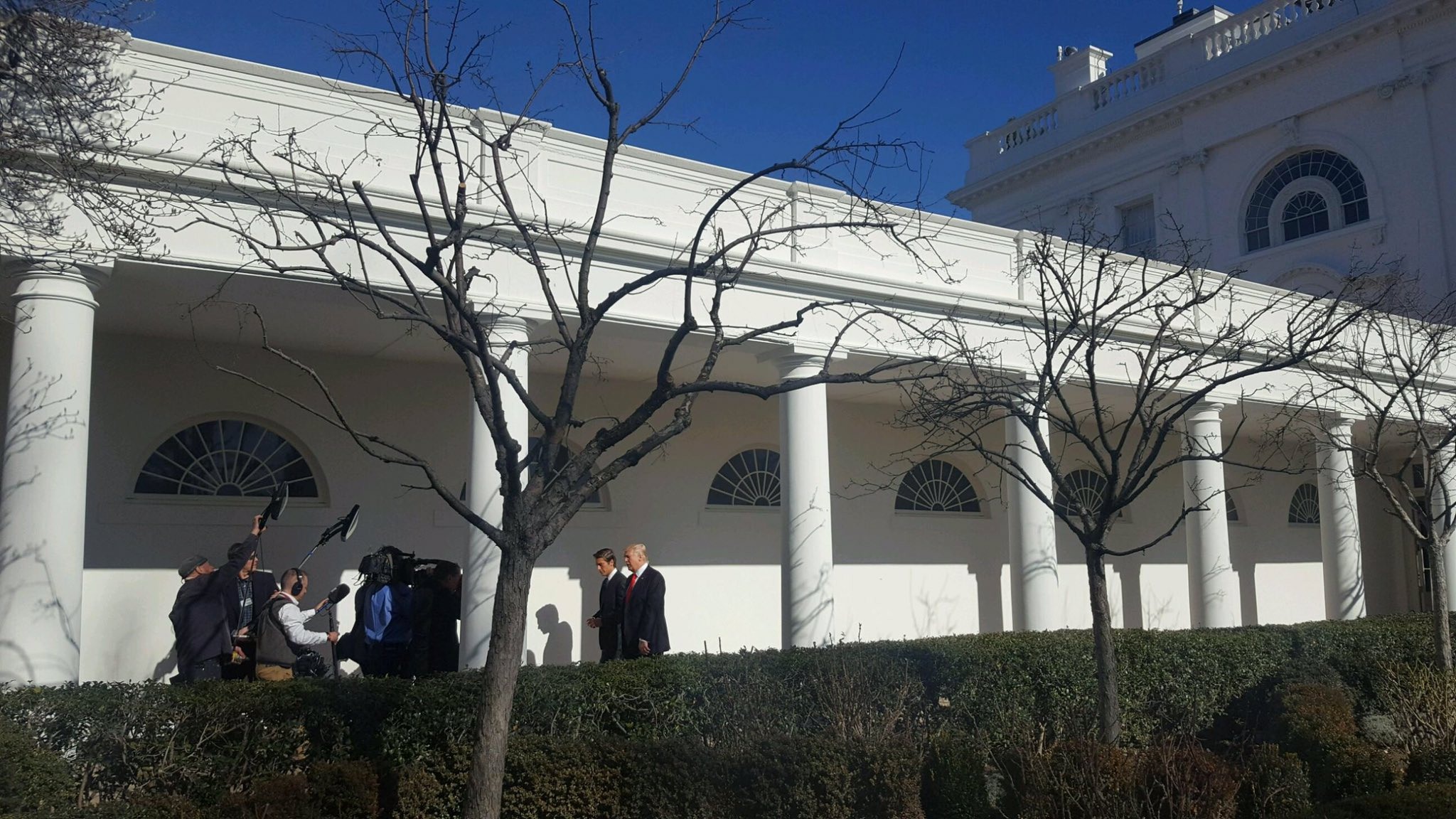 Donald Trump walking through west colonnade during an interview by David Muir for ABC